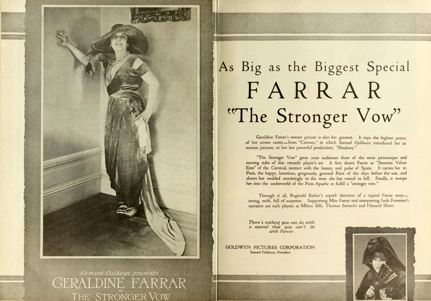 Advertisement, Moving Picture World, 10 May 1919, for the American melodrama film The Stronger Vow (1919).